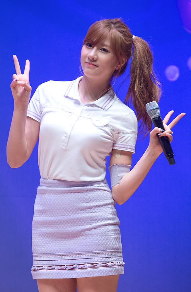 Oh Hayoung at Sudden Attack Mini Concert, 29 June 2014